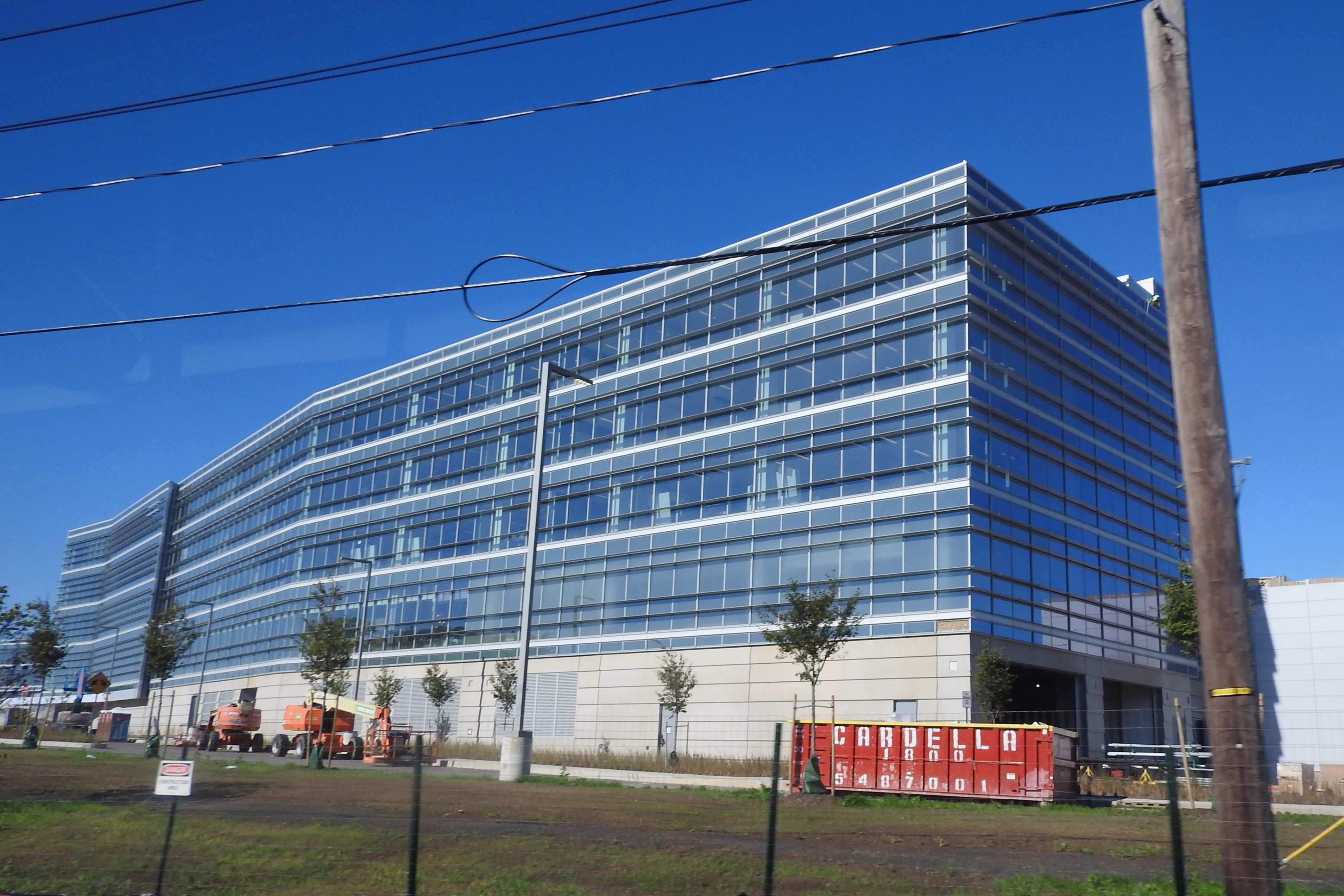 Looking west from Hudson Terrace in a passing bus